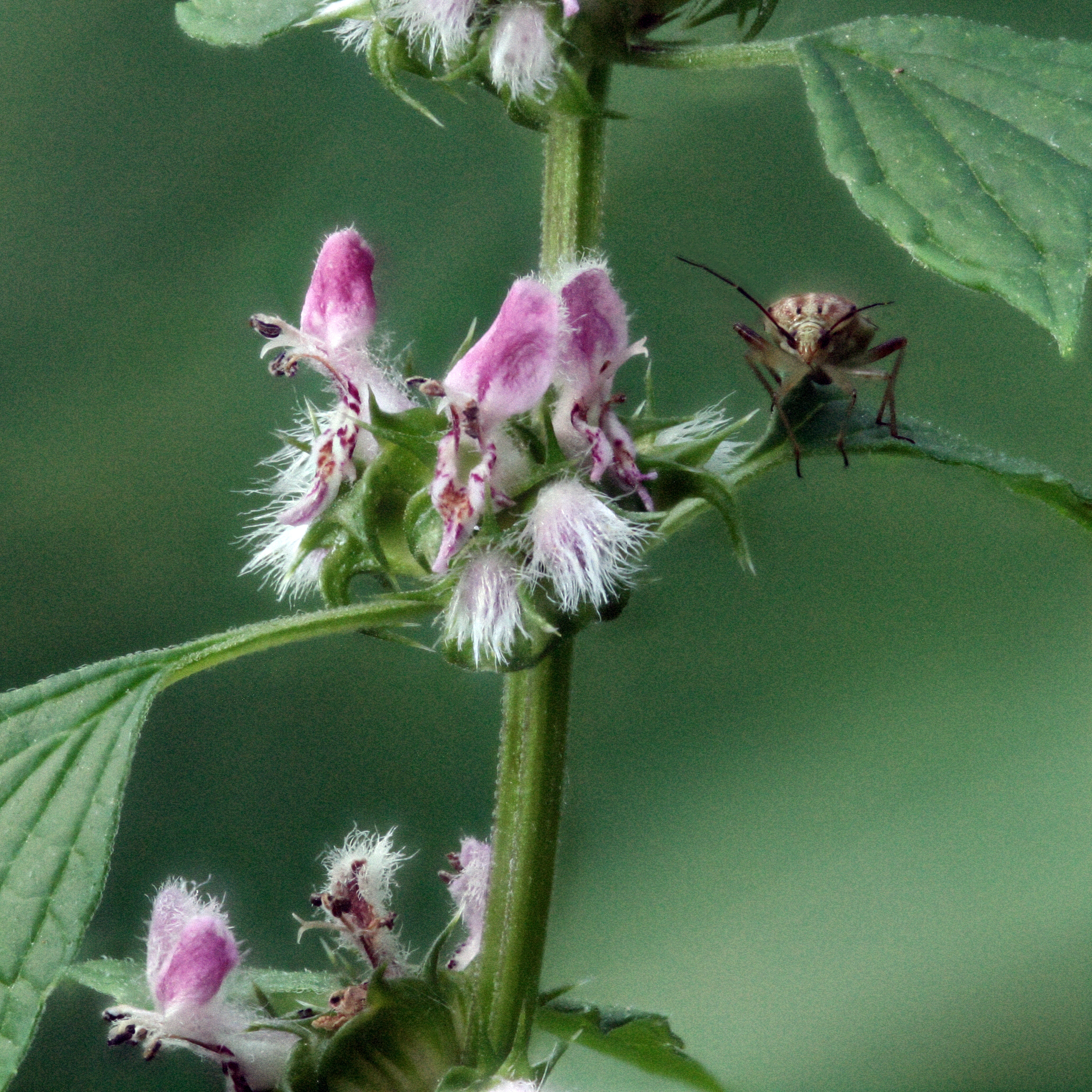 Leonurus cardiaca L. - common mother-wort. Photographed in Skaneateles, NY, July 2012, using stacked exposures.